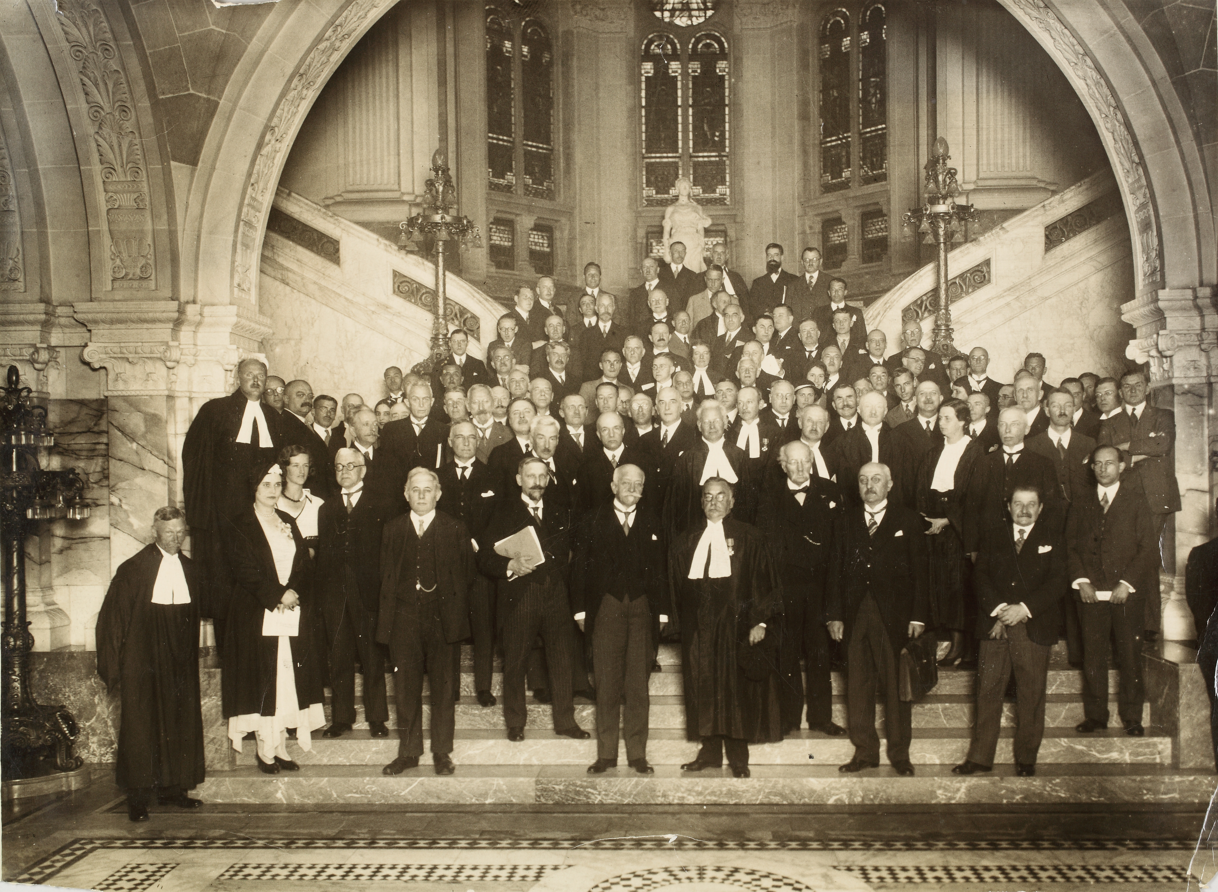 Congress of the International Union of Lawyers, held in Luxembourg in 1931, which involved the participation of Henri La Fontaine (firt row)